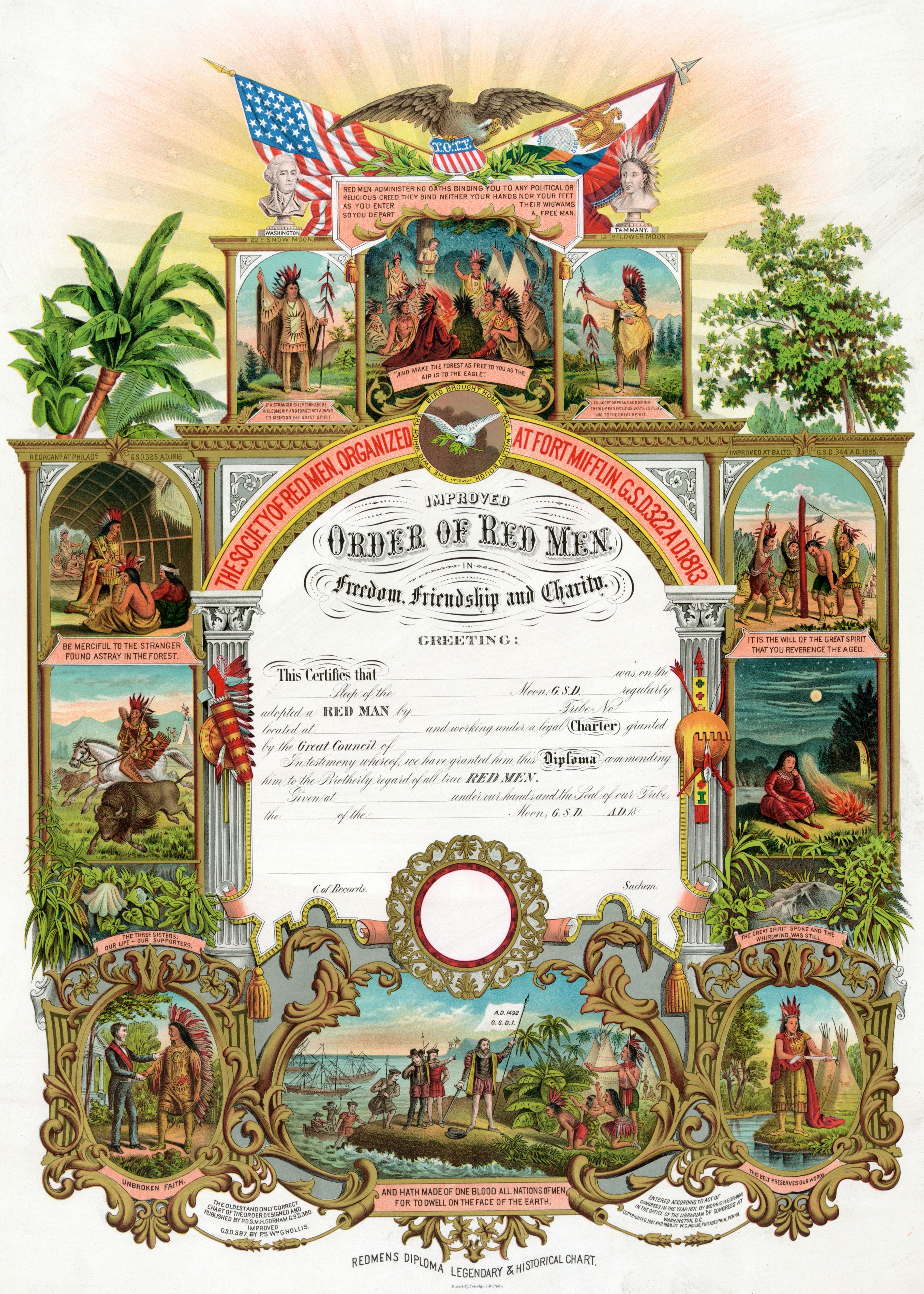 Certificate issued by the Improved Order of Red Men, with busts of George Washington and Tamanny, and vignettes of scenes from Native American life and culture: "Redmens Diploma Legendary & Historical Chart". Chromolithograph print. Captions: "Red men administer no oaths binding you to any political or religious creed. They bind neither your hands nor your feet. As you enter their wigwams so you depart a free man." "If a stranger enter your abode welcome him and forget not always to mention the Great Spirit." "And make the forest as free to you as the air is to the eagle." "To adopt orphans and bring them up in various ways is pleasing to the Great Spirit." "Be merciful to the stranger found astray in the forest." "It is the will of the Great Spirit that you reverence the aged." "The three sisters: our life - our supporters. Unbroken faith." "And hath made of one blood all nations of men for to dwell on the face of the earth." "The Great Spirit spoke and the whirlwind was still. This belt preserves our words." Certificate: "The Society of Red Men, organized at Fort Mifflin, G.S.D.322AD.1813. Improved Order of Red Men. In Freedom, Friendship and Charity. Greeting: This Certifies that — was on the — Sleep of the — Moon, G.S.D. — regularly adopted a Red Man by — Tribe No. — located at — and working under a legal Charter granted by the Great Council of — . In testimony whereof, we have granted him this Diploma commending him to the Brotherly regard of all true Red Men. Given at — under our hands, and the Seal of our Tribe, the — of the — Moon, G.S.D. — A.D. 18 — . C. of Records. Sachem."